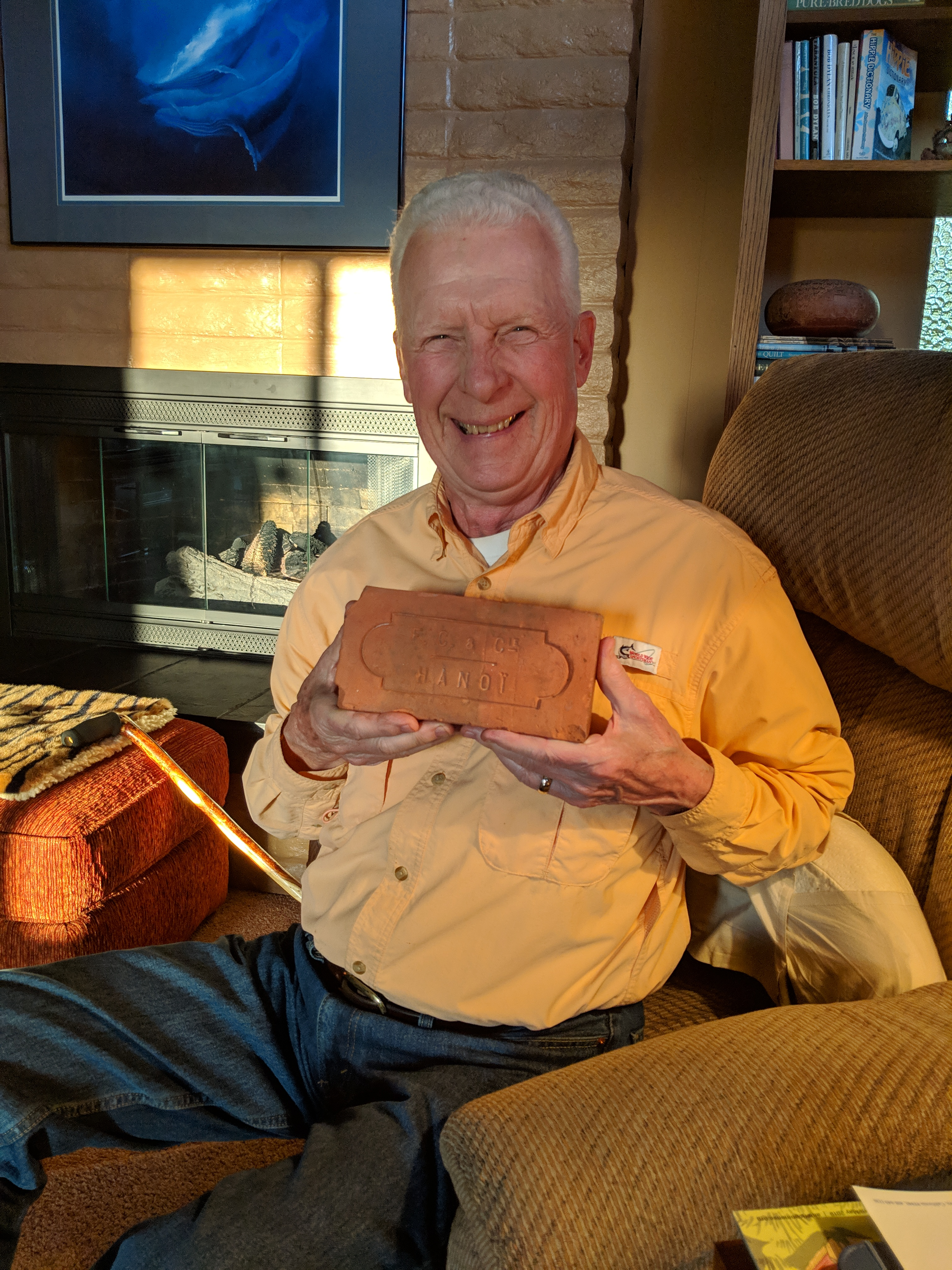 Phil Butler, 8th longest held POW pilot in Vietnam with brick from "Hanoi Hilton"